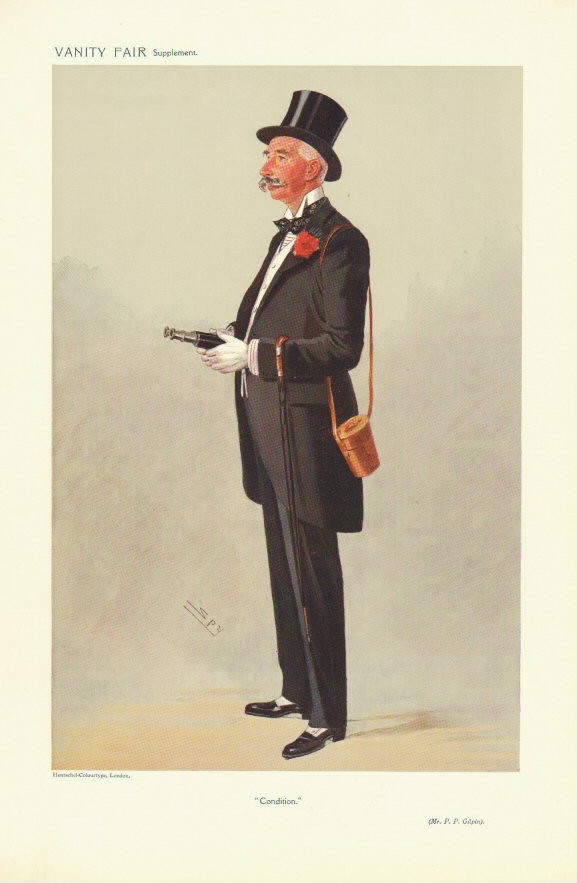 Men of the Day No.1099: Caricature of Peter Purcell Gilpin. trainer of Pretty Polly and Spearmint. Caption reads: "Condition"